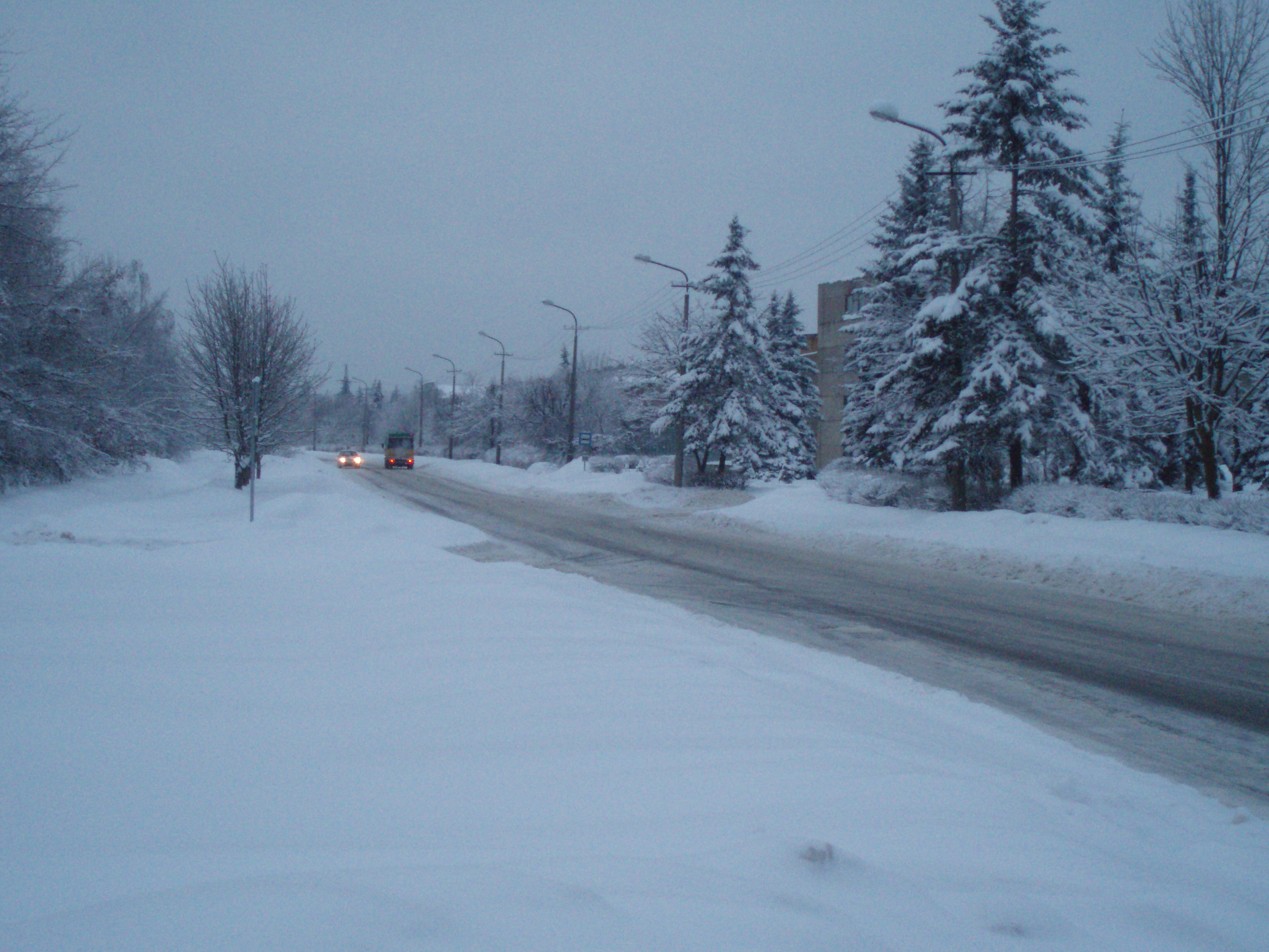 Viļakas Street in Rezekne.